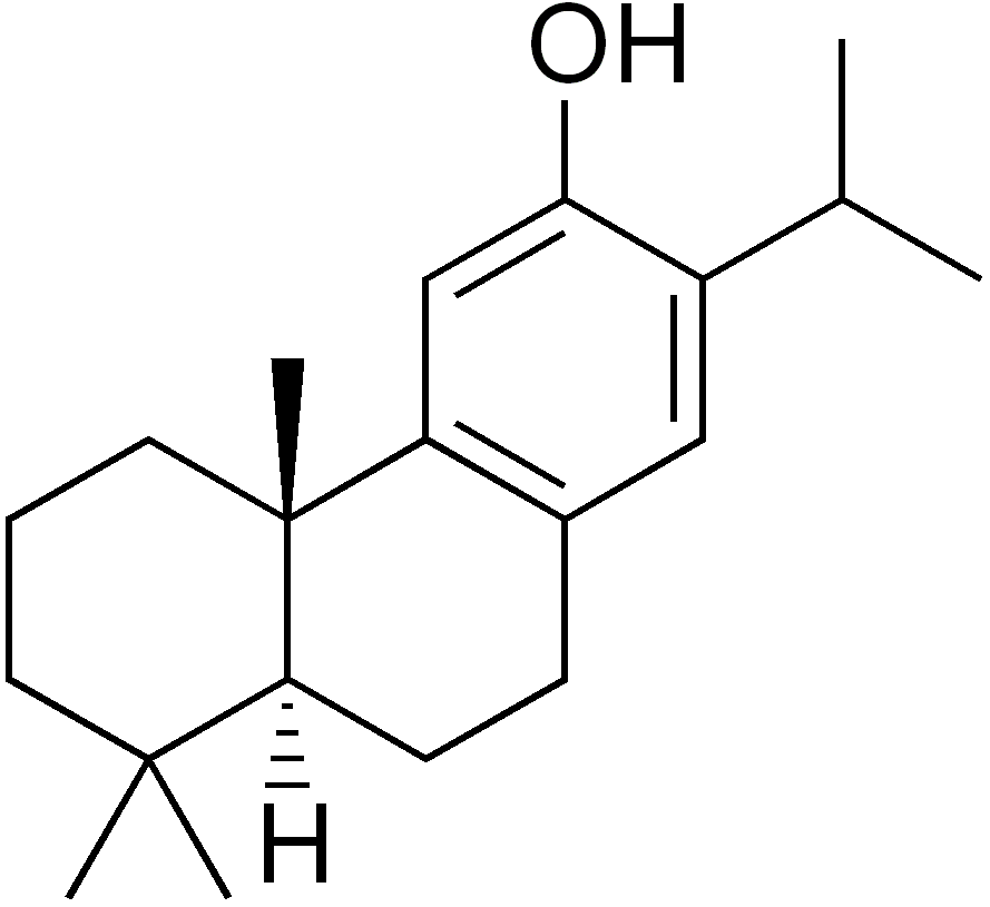 chemical structure of ferruginol